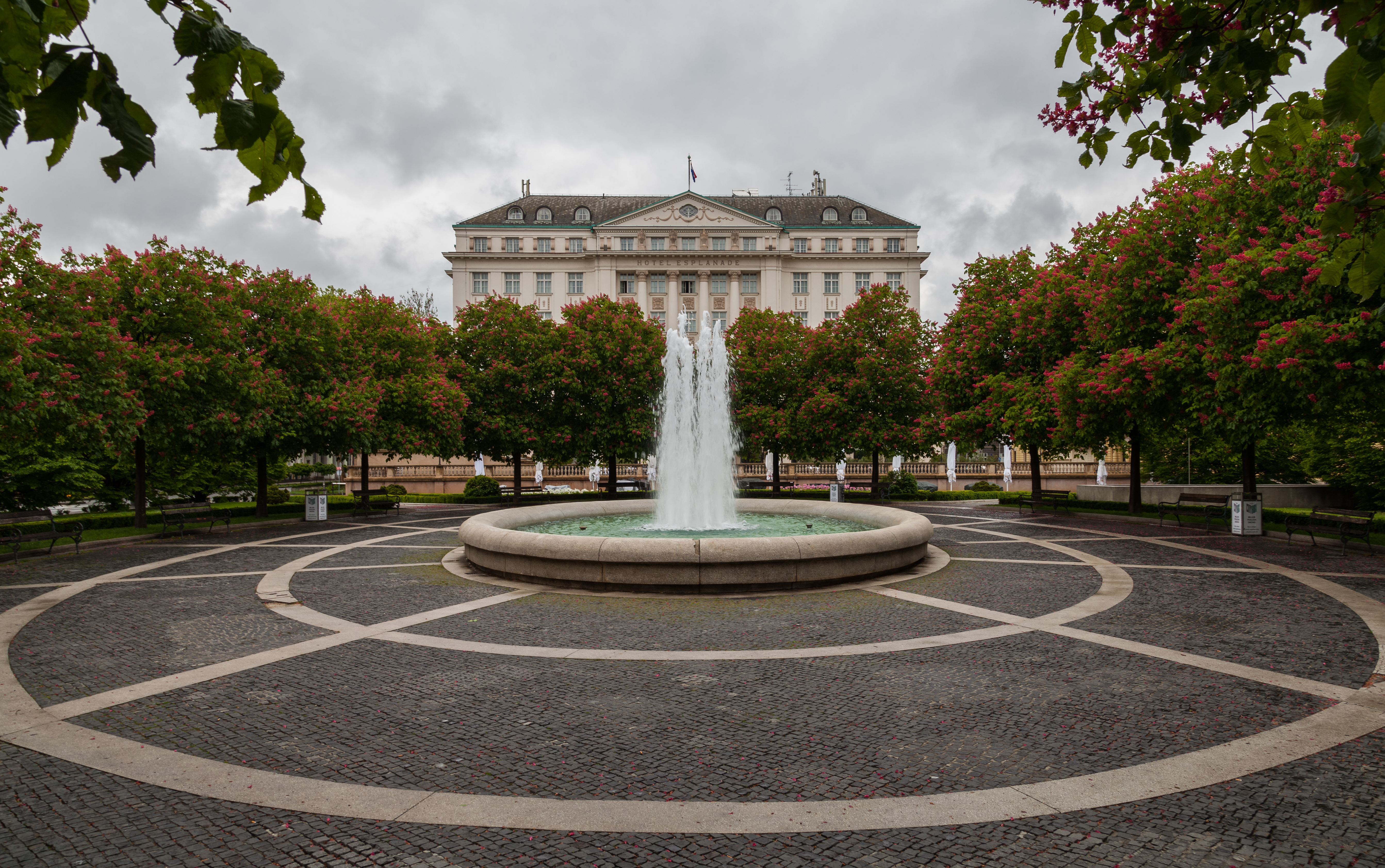 Esplanade hotel, Zagreb, Croatia